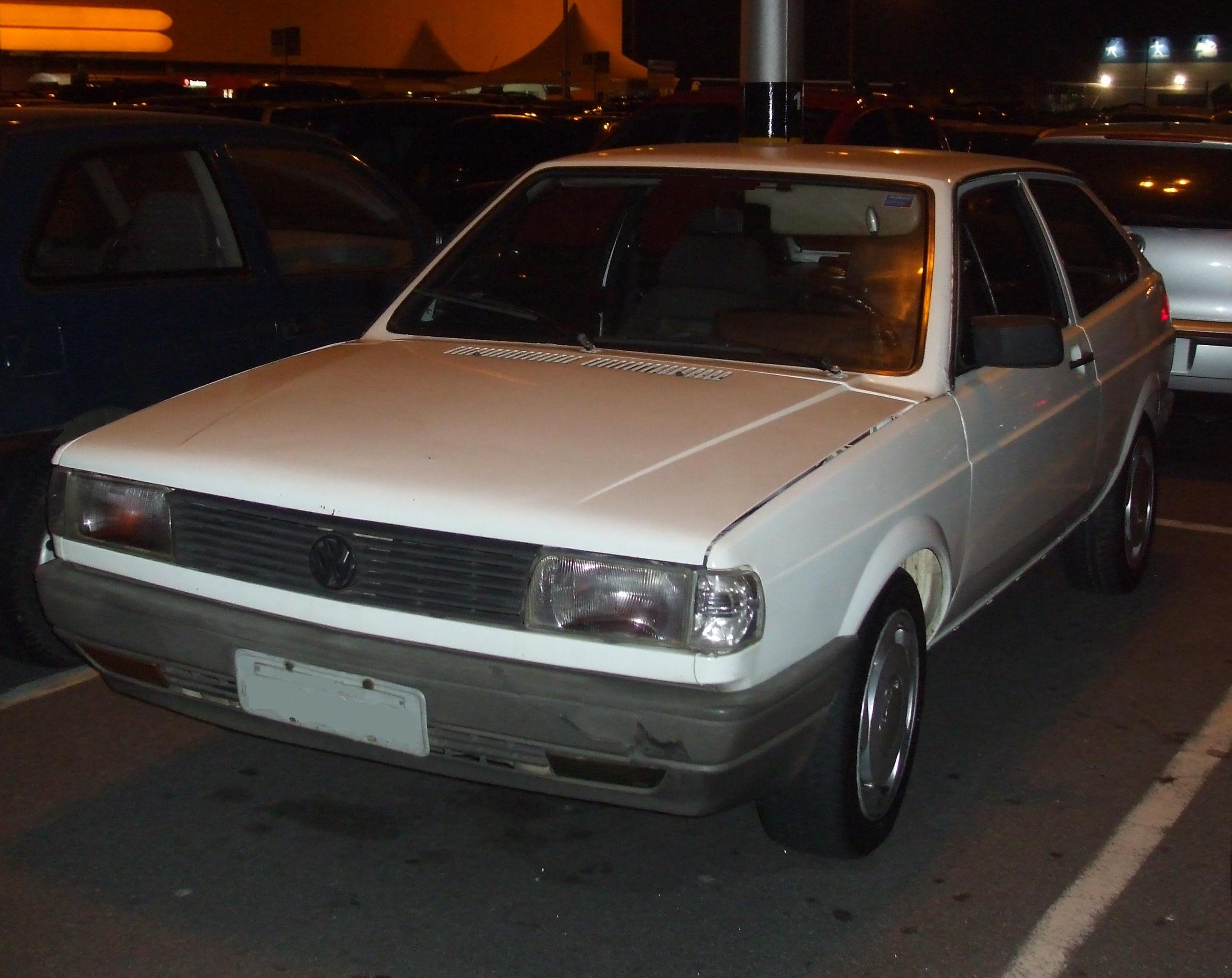 Volkswagen Gol Mk1 car in São Paulo, Brazil.